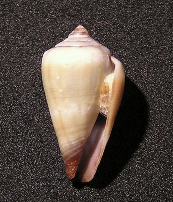 Conus fuscoflavus Röckel, Rolán & Monteiro, 1980 ; Cape Verde Islands